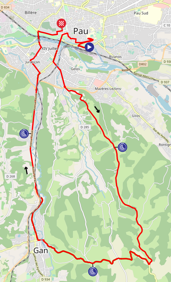 The route of stage 13 of the 2019 Tour de France. This map may be incomplete, and may contain errors. Don't rely solely on it for navigation.